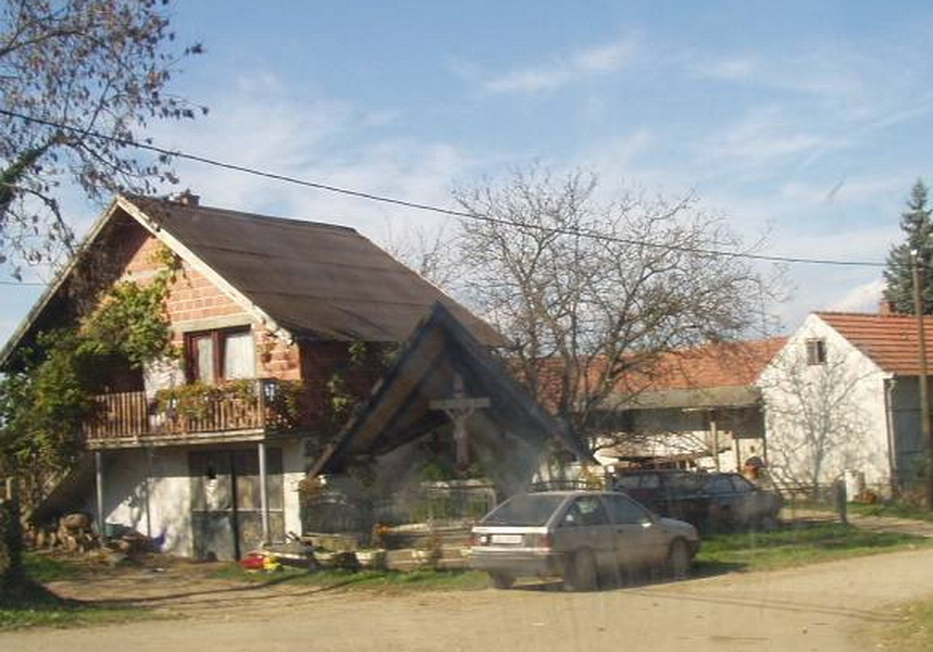 Grabrić - Semi-Chapel in the center